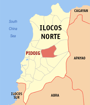 Map of Ilocos Norte showing the location of Piddig